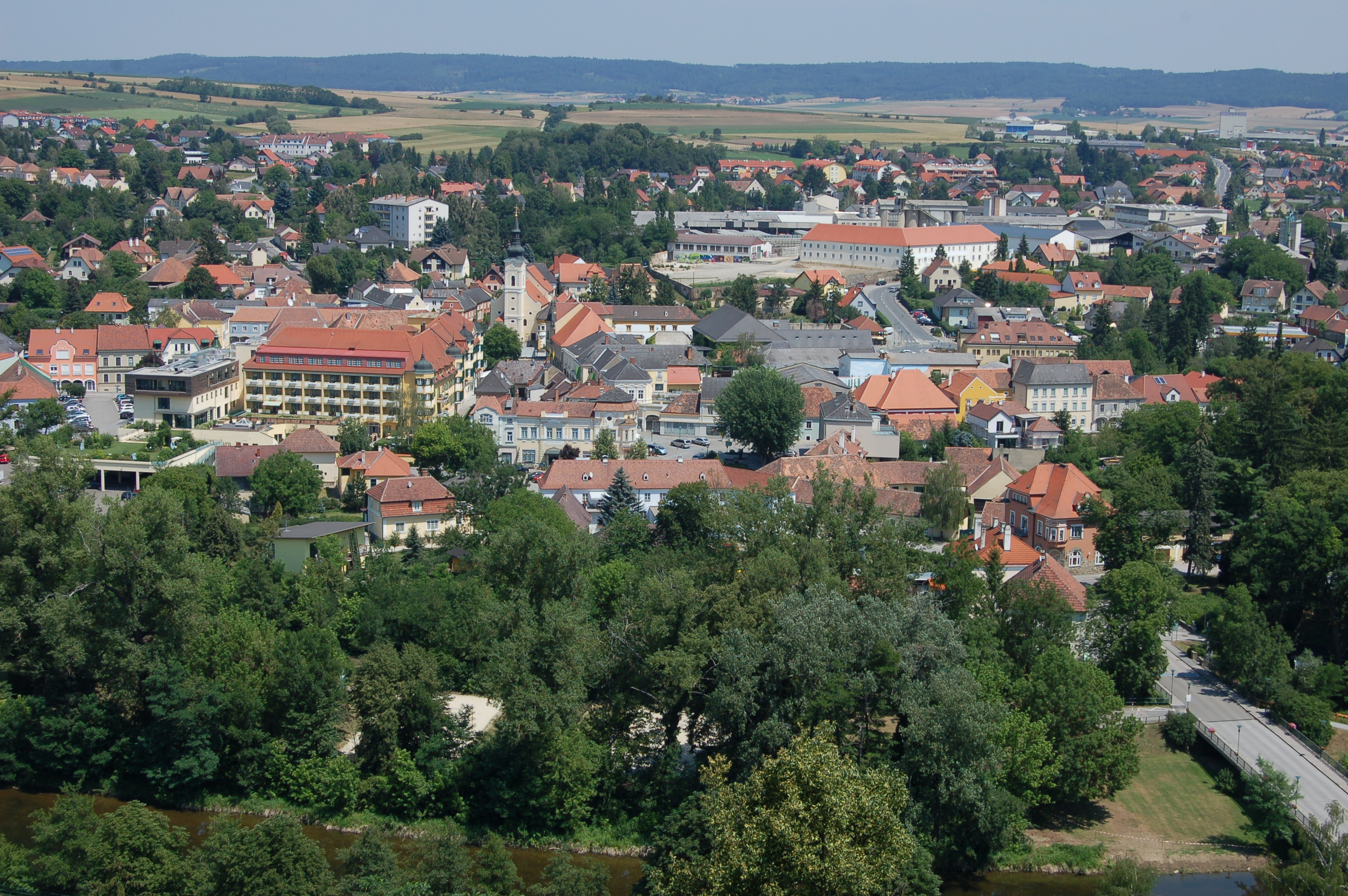 View of Gars am Kamp, Lower Austria, from Gars castle. In the centre of the image the centre of town with St. Simon and Thaddeus parish church, Main square with Kamptaler Hof hotel and Dreifaltigkeitsplatz (Trinity square) with Gasthof Goldener Adler (Golden Eagle inn) is located. Right and somewhat above the parish church the former Redemptorist Nuns' monastery can be seen.